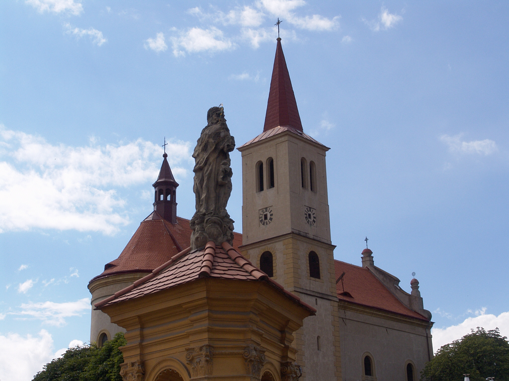 Parish church of SS Peter and Paul in Žitenice, Litoměřice District, Czech Republic